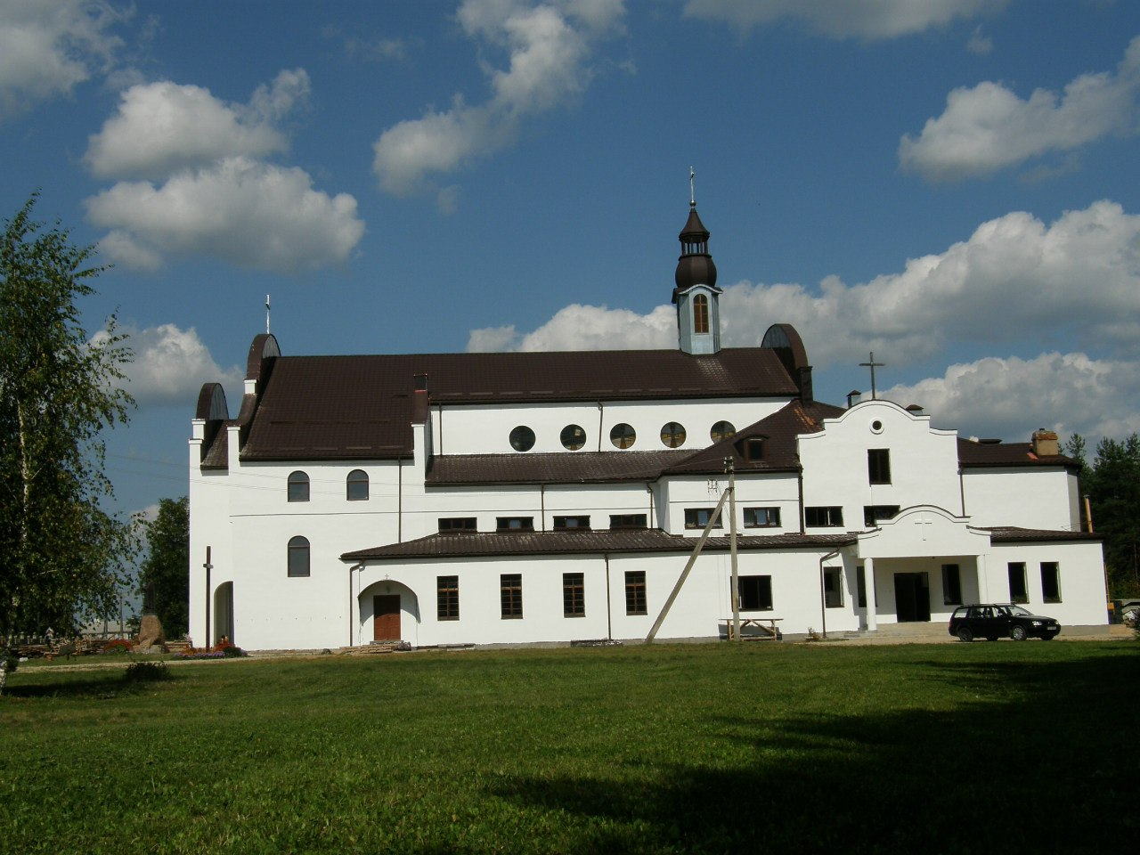 Касцёл Маці Божай Фацімскай